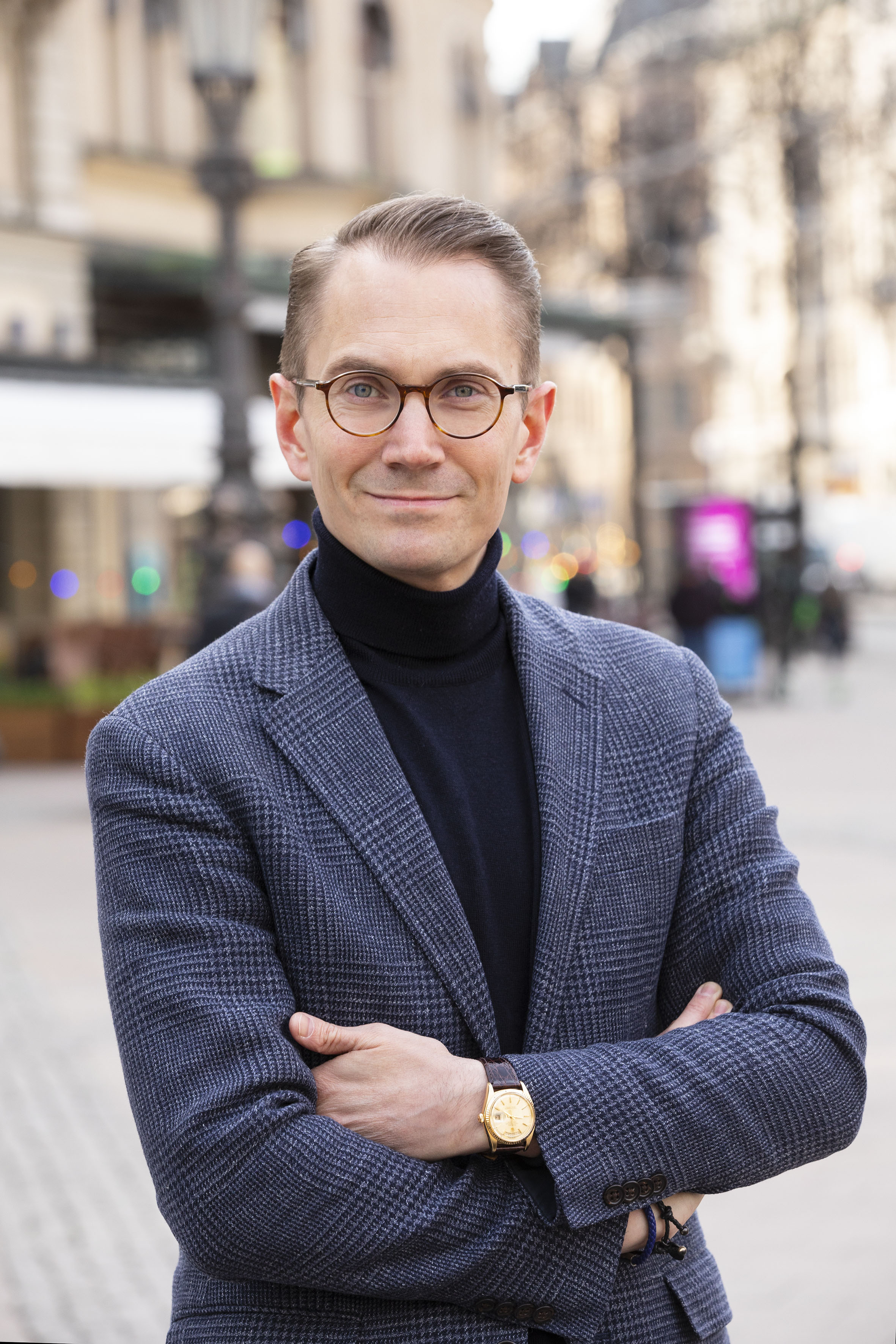 Photo of Oskar Öholm CEO of Fastighetsägarna Stockholm.